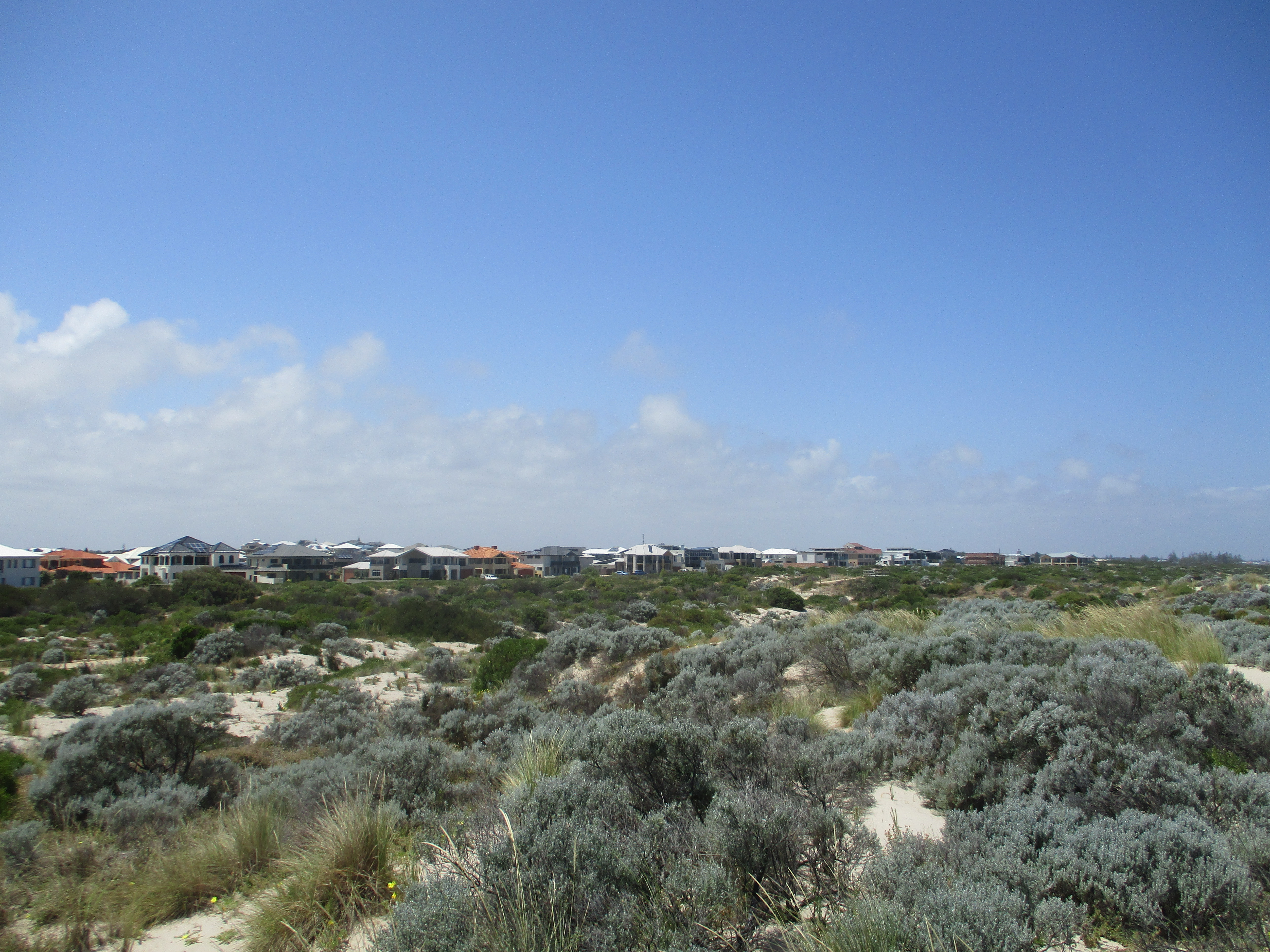 Houses at Secret Harbour, Western Australia, seen from near the beach at Palisades Boulevard.